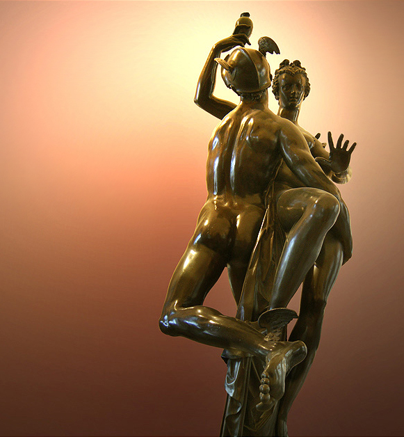 Mercury and Psyche. Bronze, 1593, commissioned by Emperor Rudolf II.